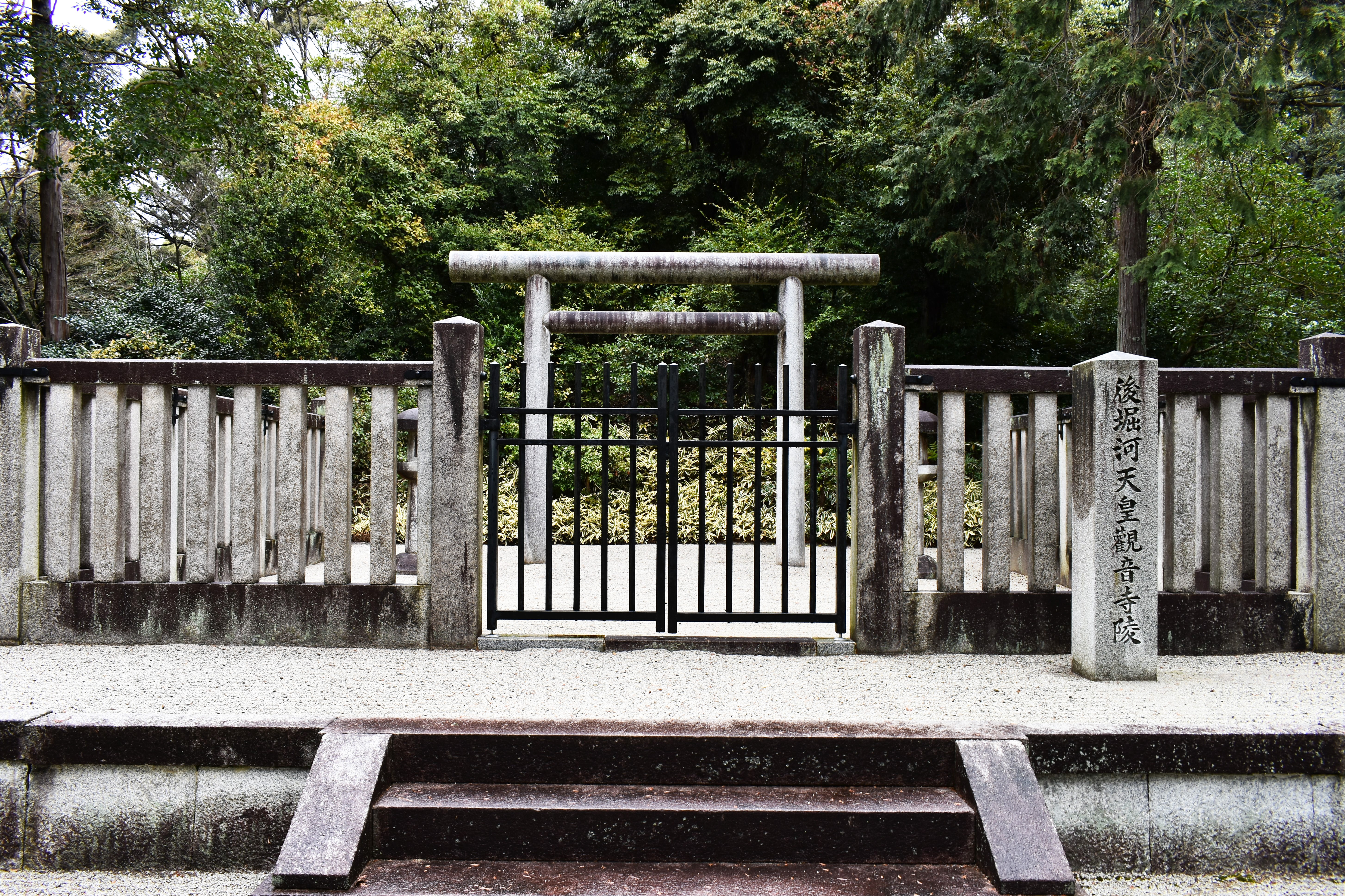 The eighty-sixth Japanese Emperor Gohorikawa(March 22, 1212 – August 31, 1234), Kannonji no Misasagi (mausoleum). It is located in Sennyu-ji Temple in Higashiyama Ward, Kyoto City, Kyoto Prefecture.